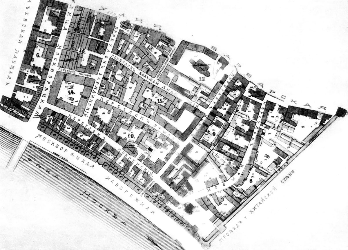 Map of Zaryadye district, Moscow, 1881